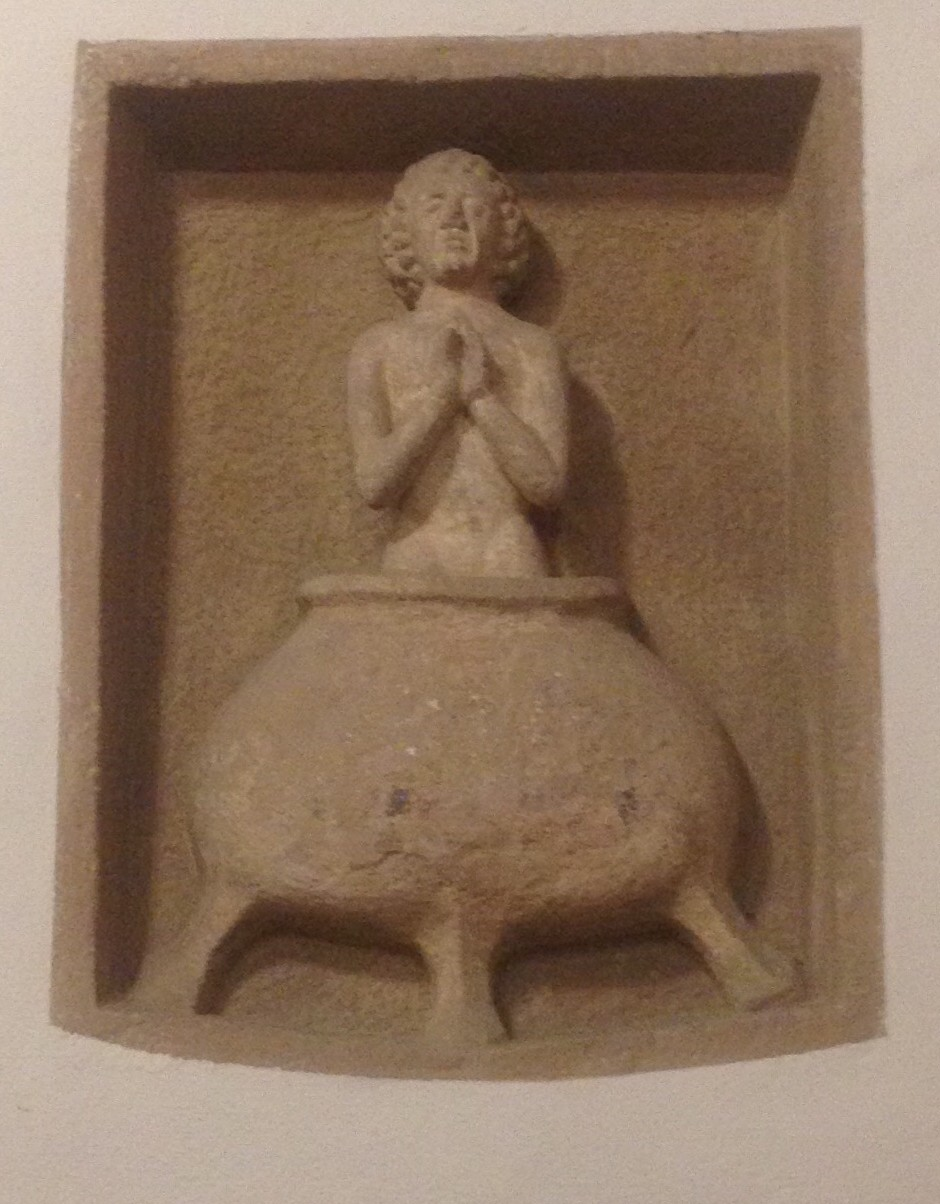 St.Veit in church St. Veit (Vitus) in Wünschendorf/Thuringia